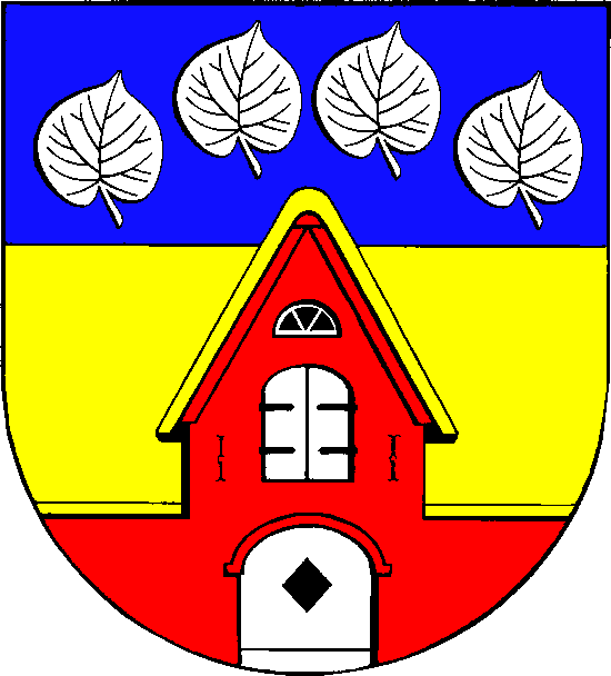 Coat of arms of the municipality Risum-Lindholm in Schleswig-Holstein, Germany.